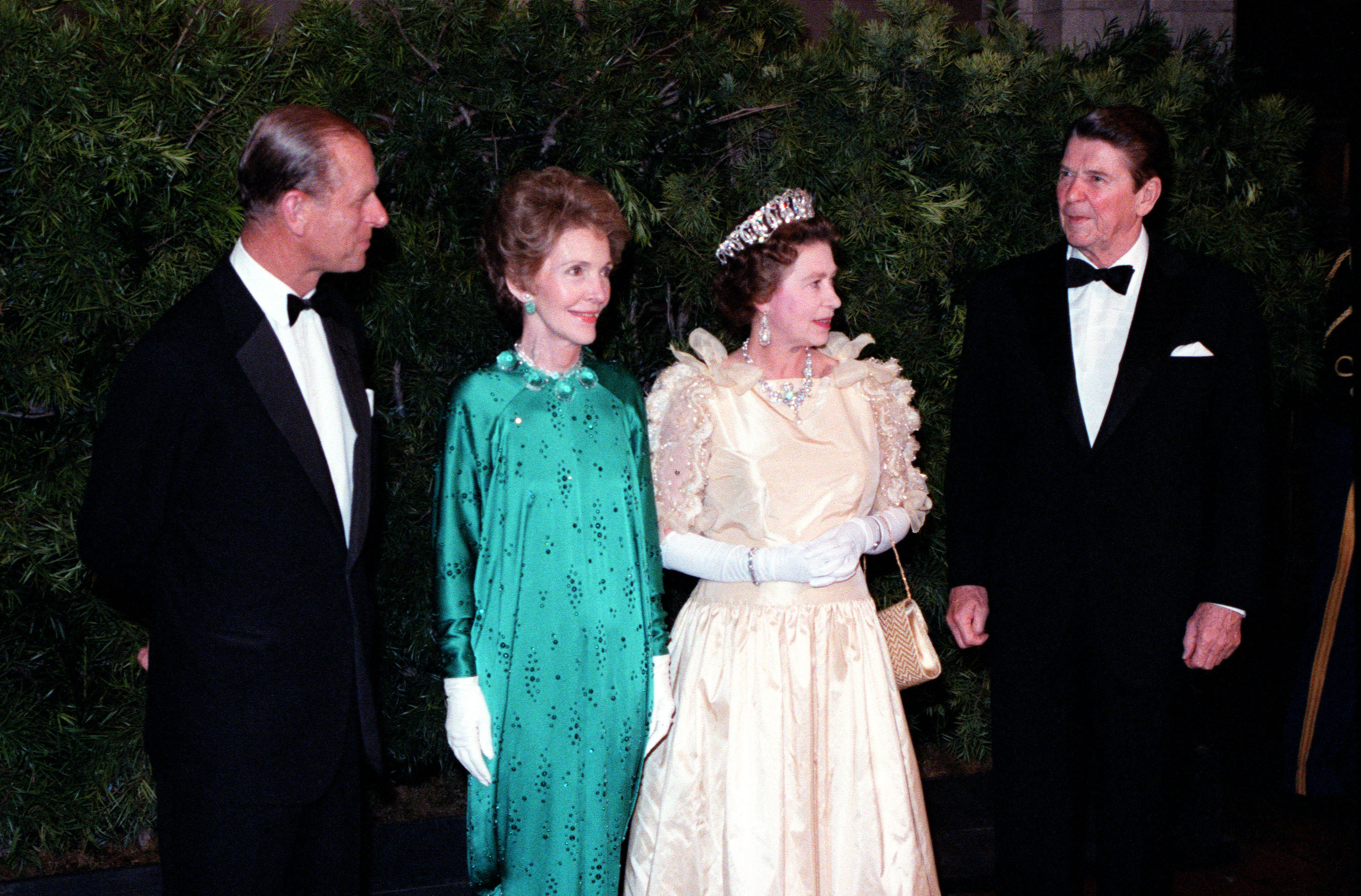 Queen Elizabeth II and Prince Philip stand with President and Mrs. Reagan during a state dinner. The Queen was on a tour of the West Coast of the United States.